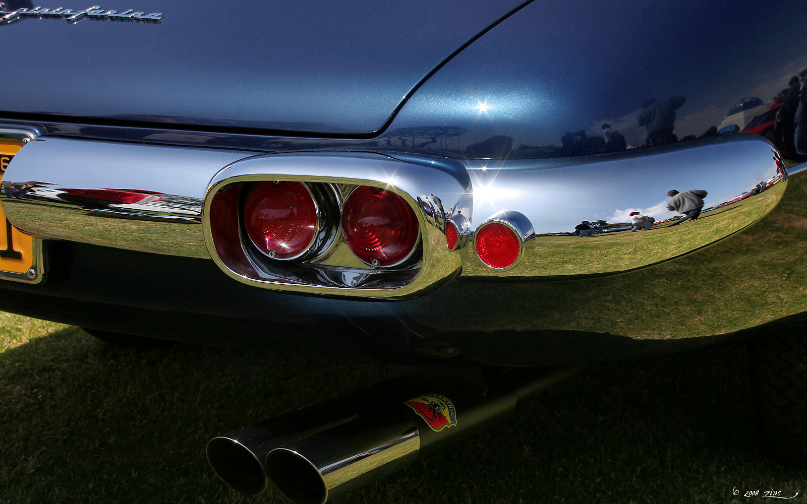 1961 Ferrari 400 Superamerica SWB - blue - taillight